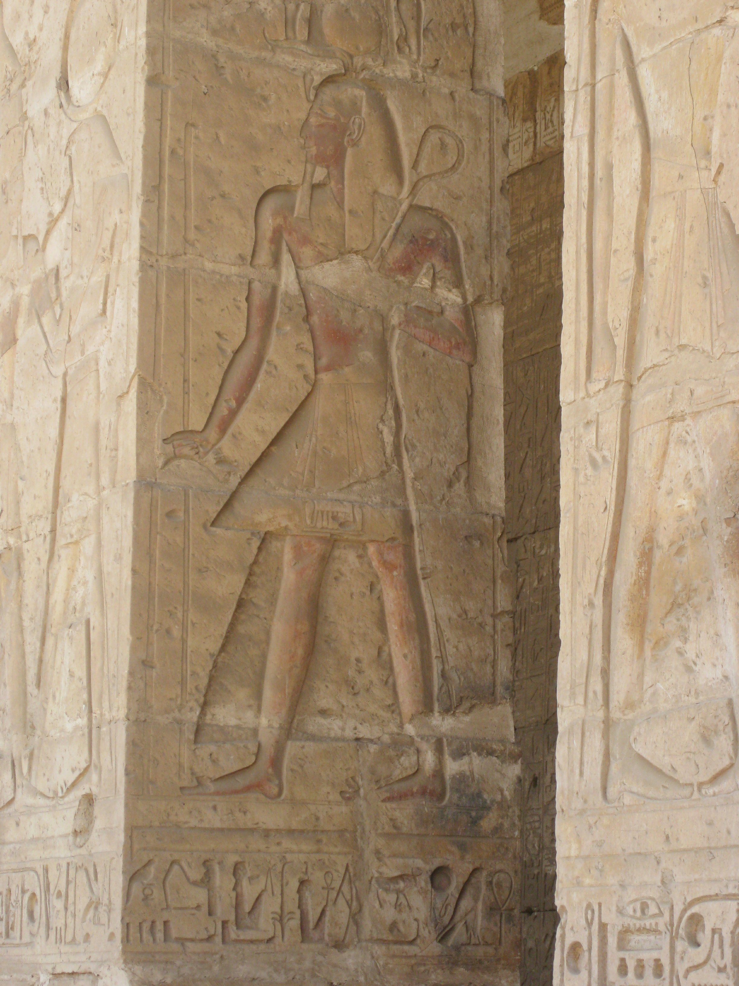 Temple of Seti I. Abydos